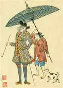 Portrait in the Western style, Japanese painting on rolled cloth, 18th century